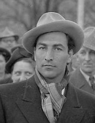 Finnish sculptor Matti Haupt